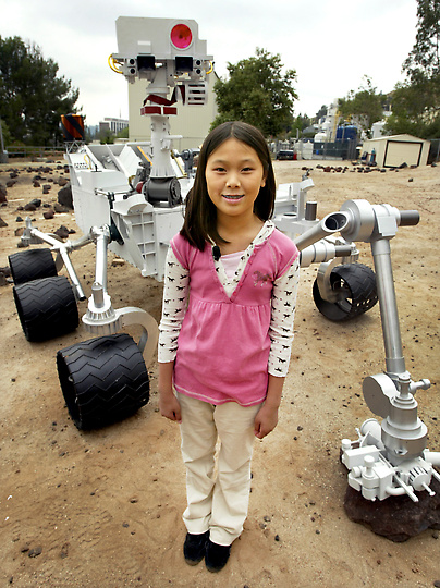 NASA's Mars Science Laboratory rover, scheduled for launch in 2011, has a new name, thanks to a sixth-grade student from Kansas. Twelve-year-old Clara Ma from the Sunflower Elementary school in Lenexa submitted the winning entry, "Curiosity." As her prize, Ma wins a trip to NASA's Jet Propulsion Laboratory in Pasadena, Calif., where she will be invited to sign her name directly onto the rover as it is being assembled.